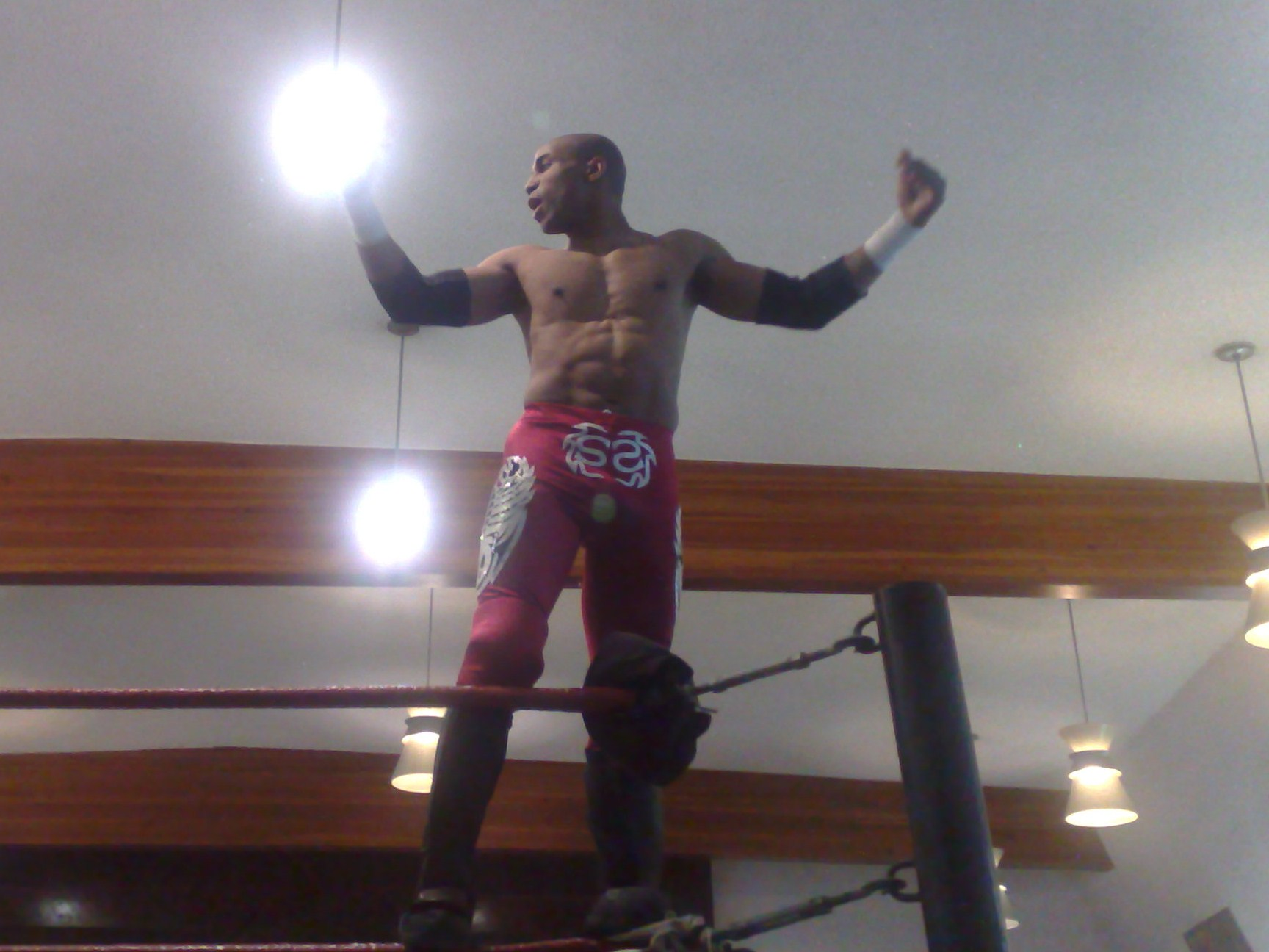 Professional wrestler Scorpio Sky at Pro Wrestling Guerrilla's ¡Dia de los Dangerous! show on February 24, 2008.